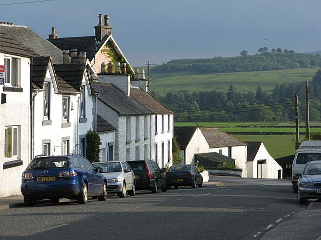 Looking south from St John's Town of Dalry, Dumfries and Galloway, Scotland